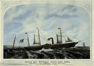 Currier and Ives color lithograph of the steamship Winfield Scott. Its Channel Islands shipwreck is on the National Register of Historic Places in Channel Islands National Park, Southern California. Credits Image obtained from the Channel Islands National Marine Sanctuary site ( Lithograph is courtesy Deborah Marx.